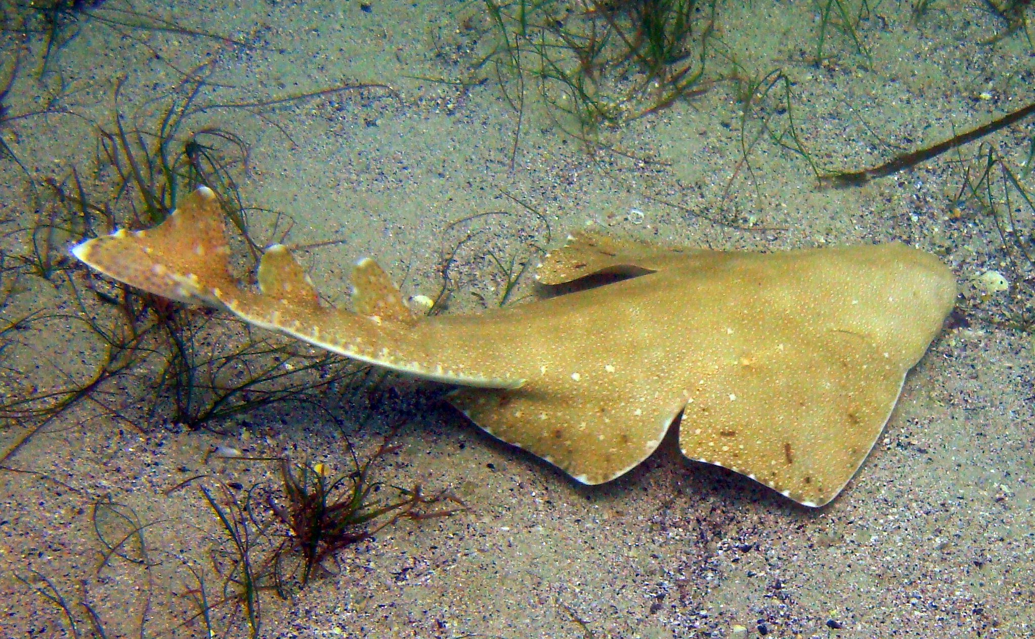 Australian angelshark (Squatina australis) at the Bicheno Dive Centre, Tasmania